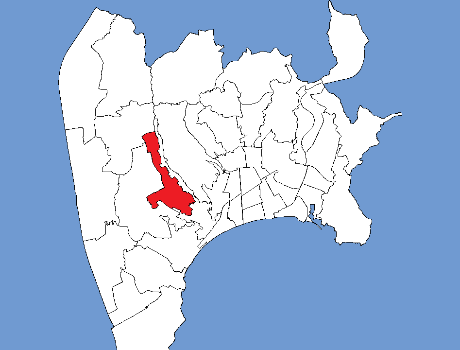 Location of the neighbourhood Ventabrun in Nice